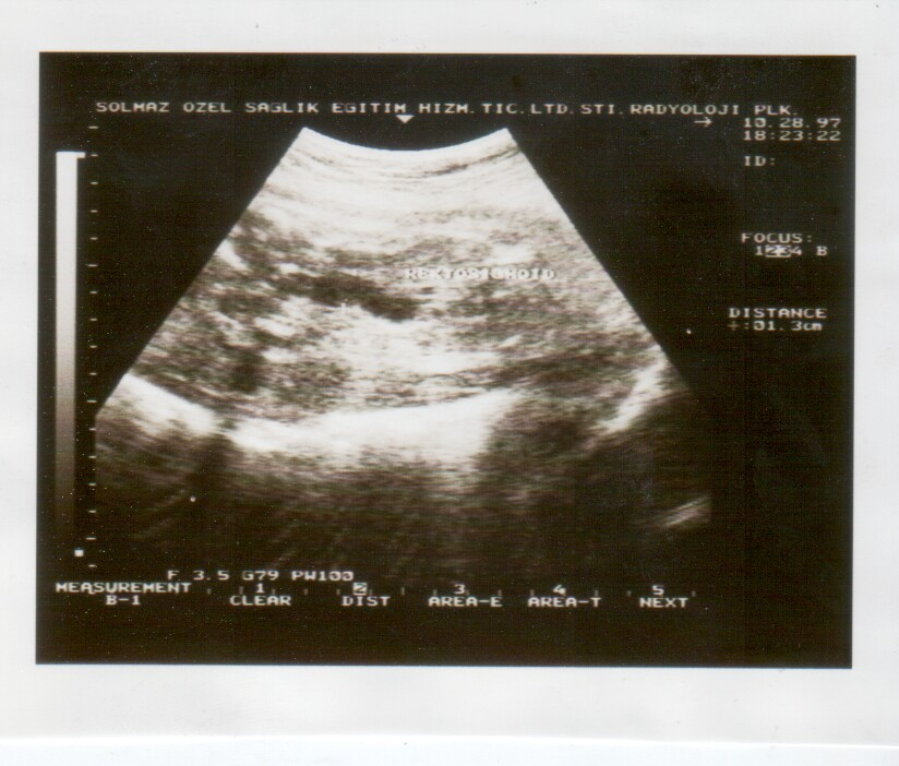 Ultrasound scan. Provided as-is. Please feel free to categorise, add description, crop or rename.